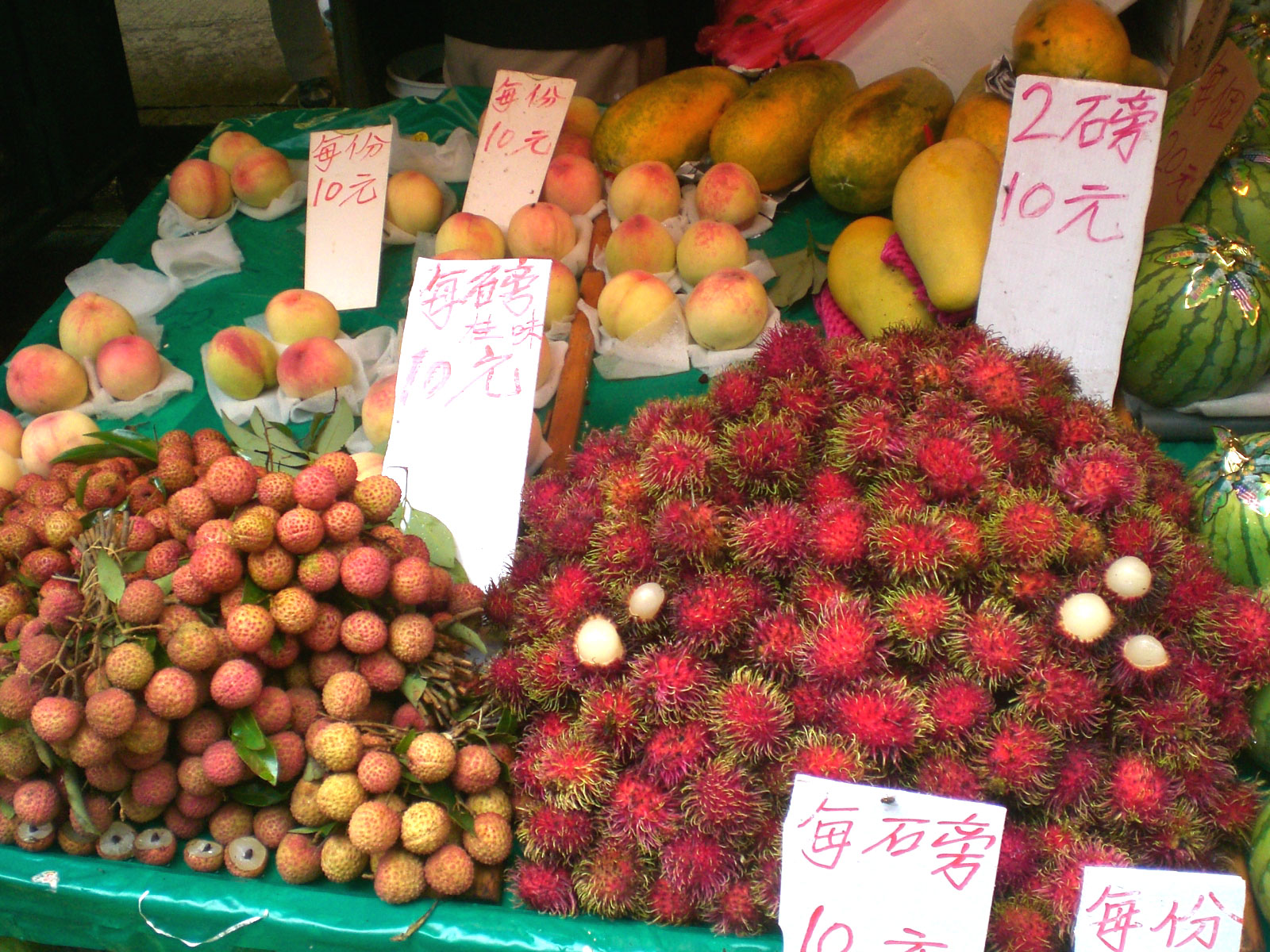 zh-yue:旺角街市